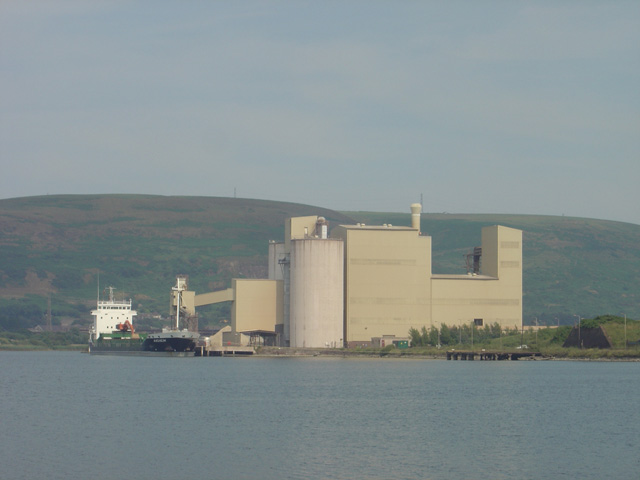 Stone processing plant, Port Talbot Docks This appears to be the only remaining commercial traffic using the docks, which were originally built primarily for the export of coal.